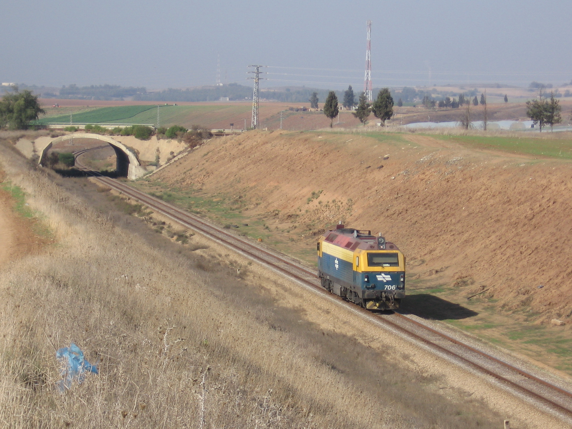 Heletz Railway near Kiryat Gat in Israel with a lone Alstom JT42CW locomotive on the way.